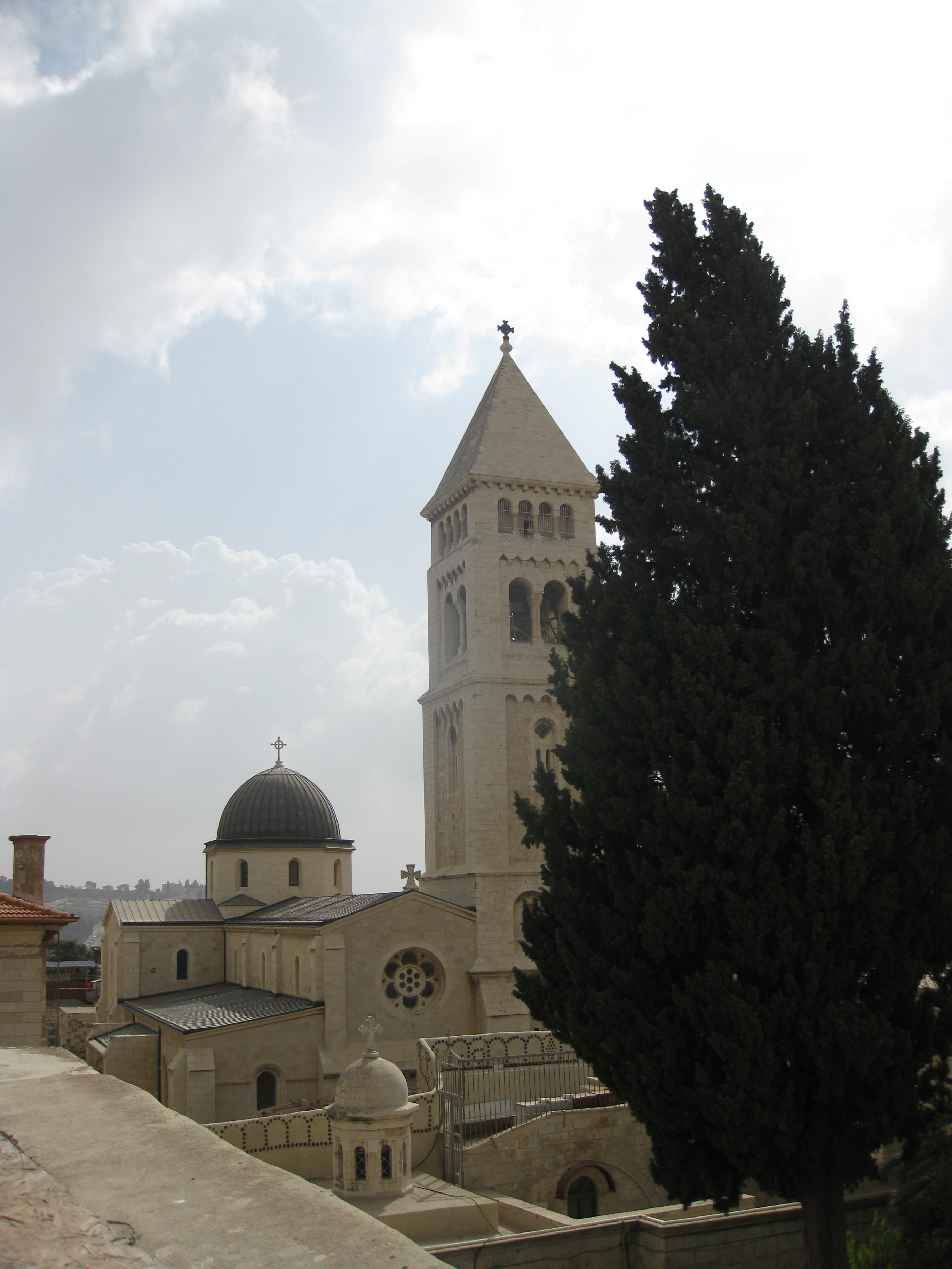 View from the roof of the Holy Sepulchre towards the Saviors church